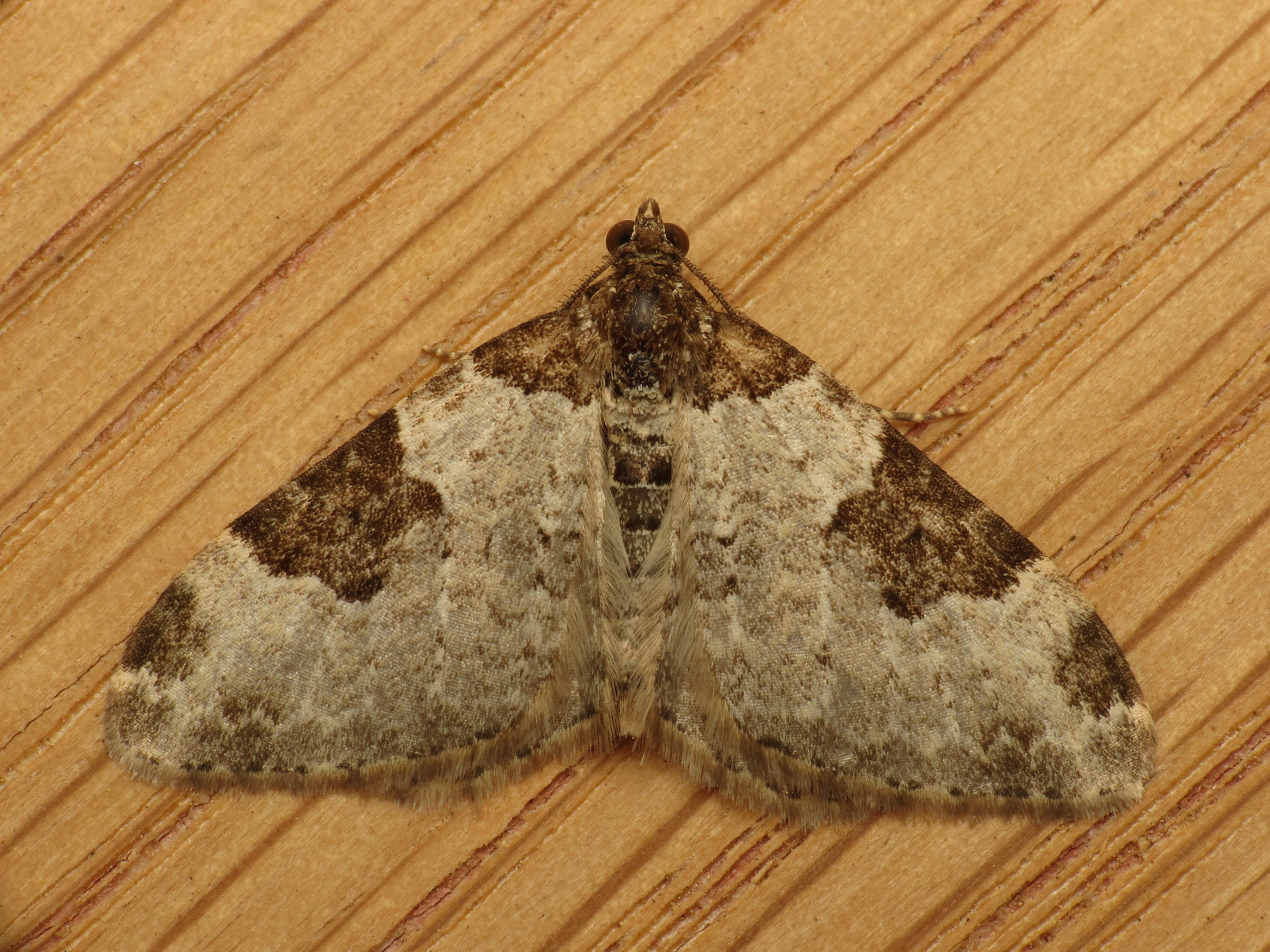 Xanthorhoe fluctuata (Linnaeus, 1758), Garden Carpet, to Robinson trap, Hellerup, Denmark, 25/26 May 2013